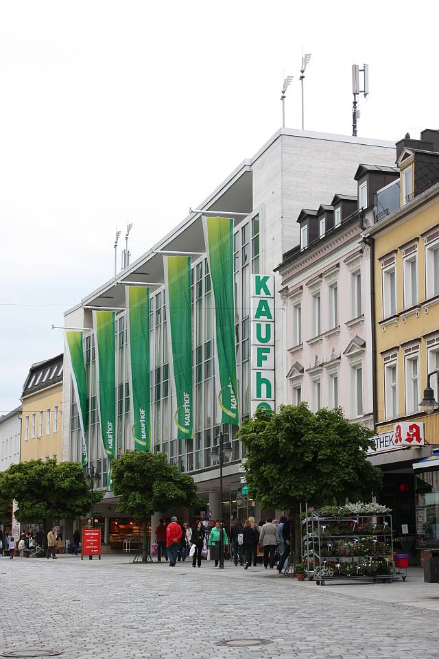 Kauf(hof)2(Kaufhof in Hof)